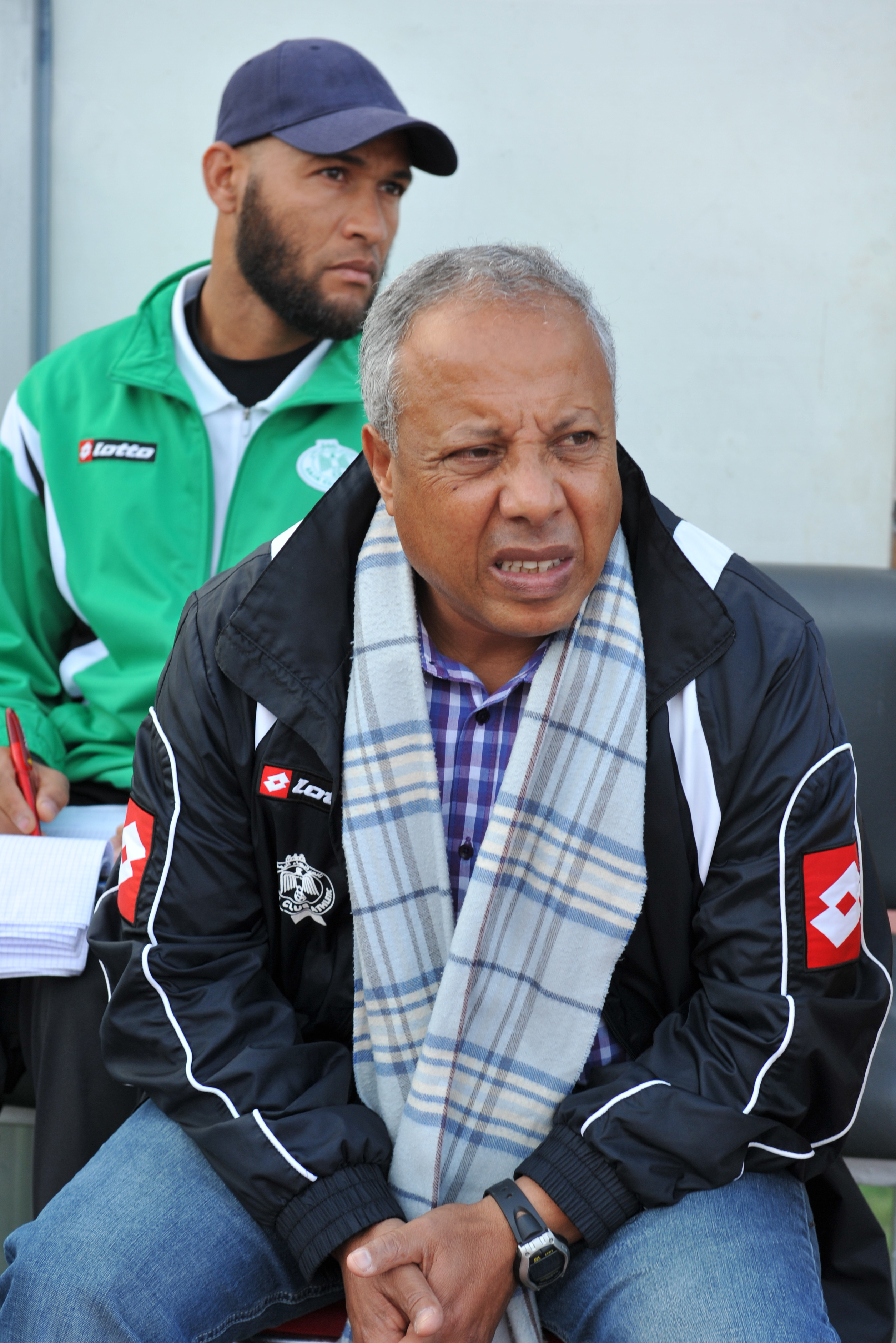 Mhamed Fakhir, the coach of Raja Casablanca, and his assistant Abdellatif Jrindou